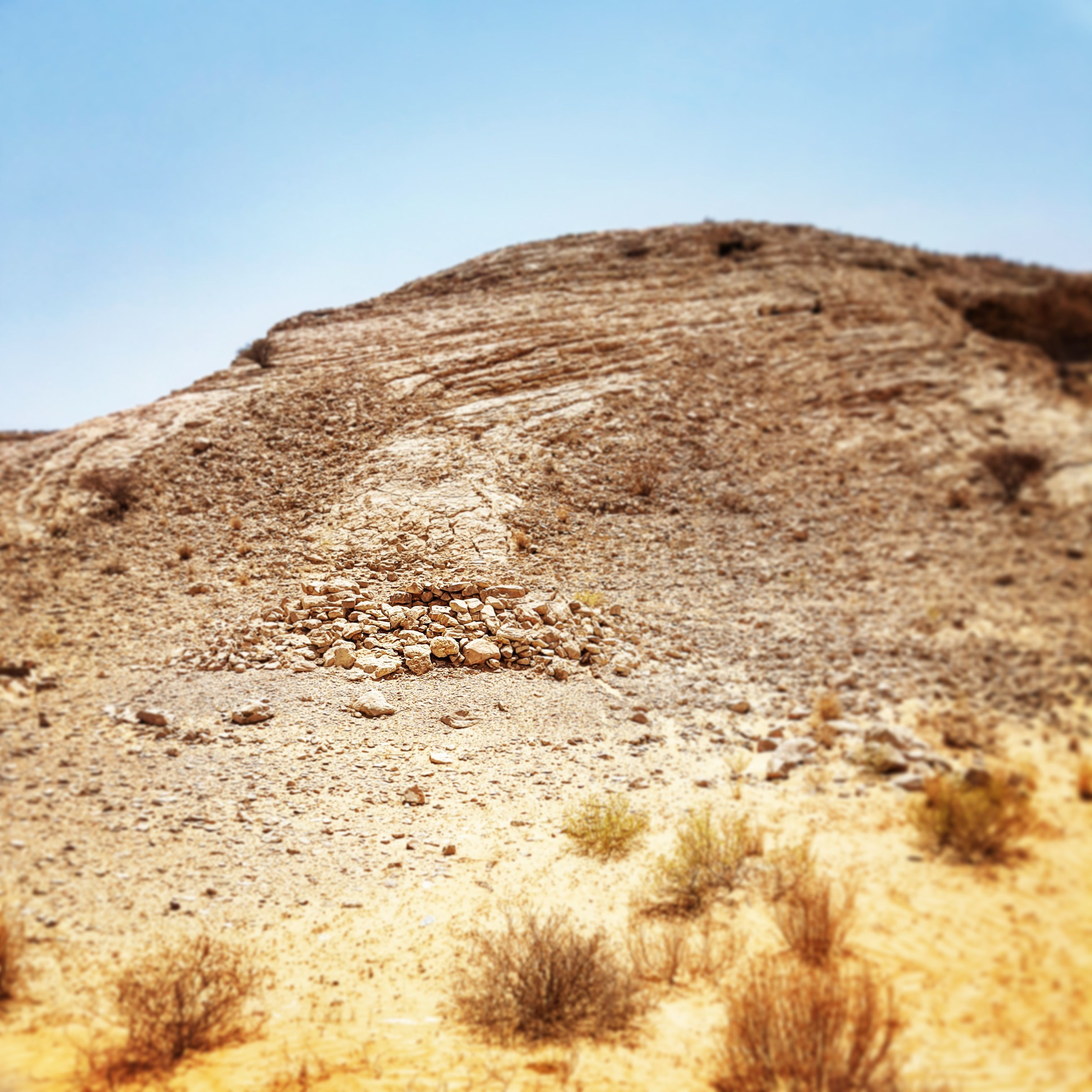 A Hafit period entombment, one of a number littering the Eastern slopes of Bidda Bint Saud.